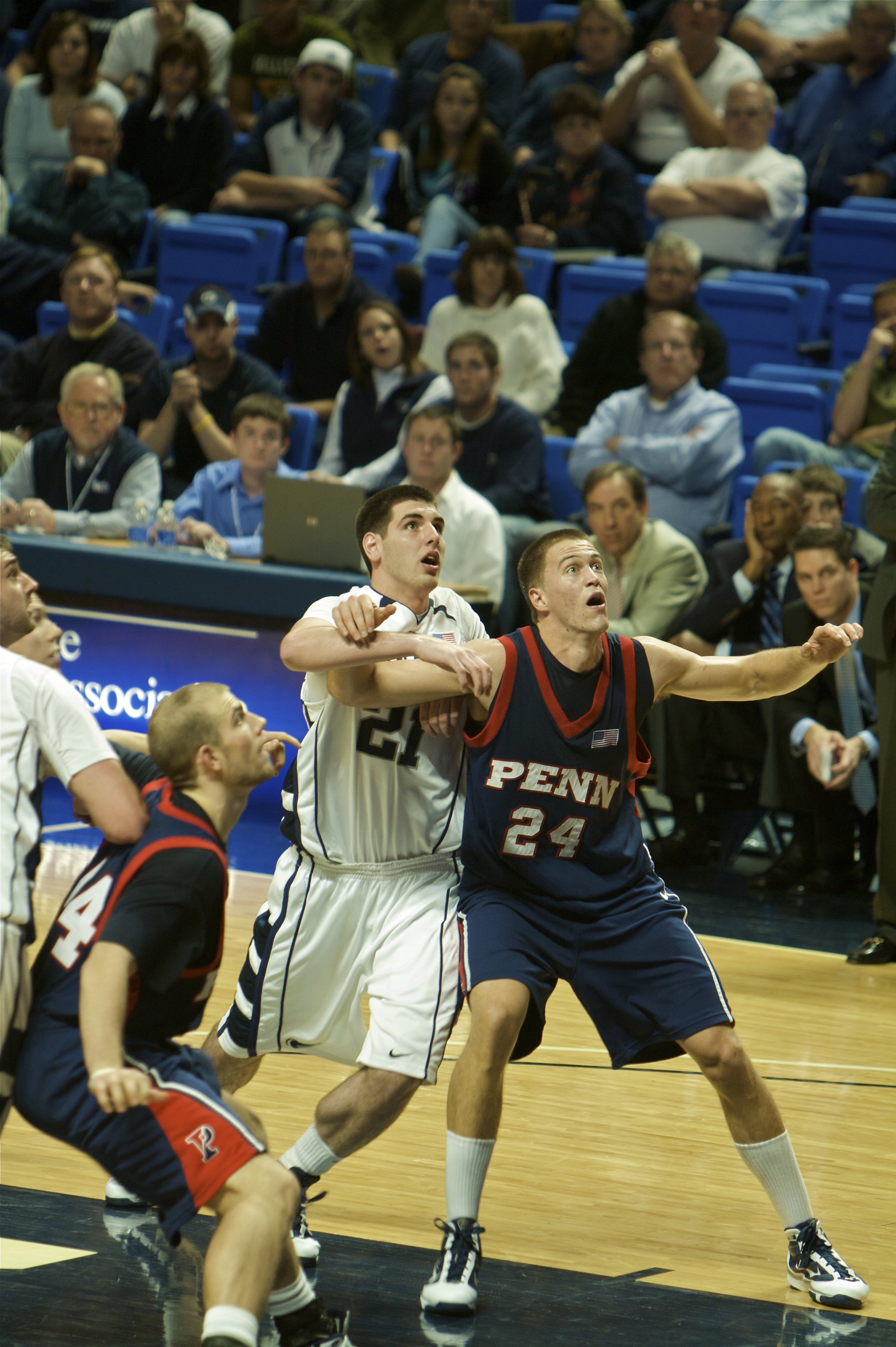 Rebounding battle at a game Penn State vs. University of Pennsylvania, 2009 season